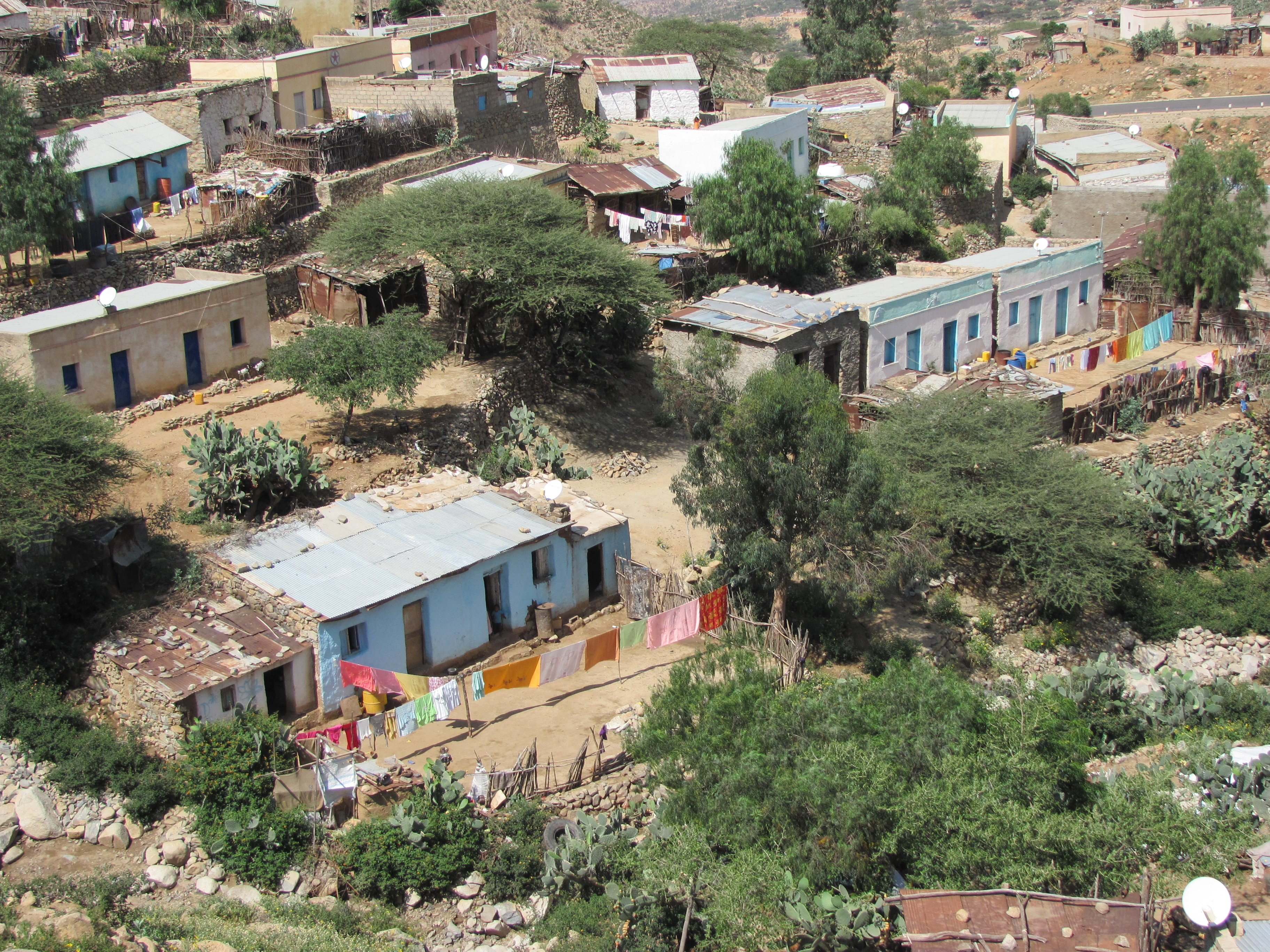 Nefasit